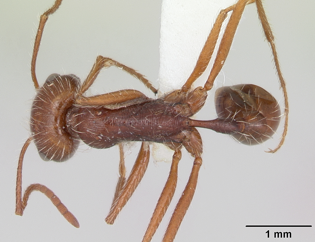 Dorsal view of ant Ocymyrmex dekerus specimen casent0173608.